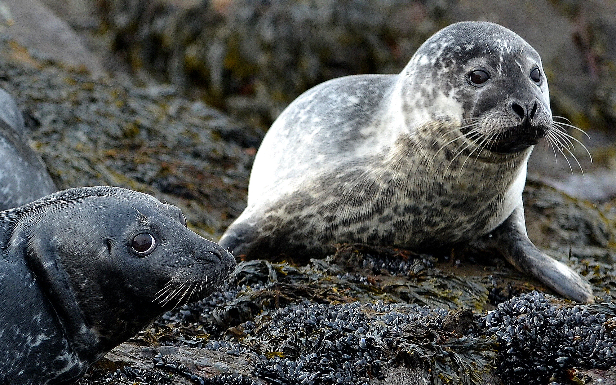 Seals doing a rest